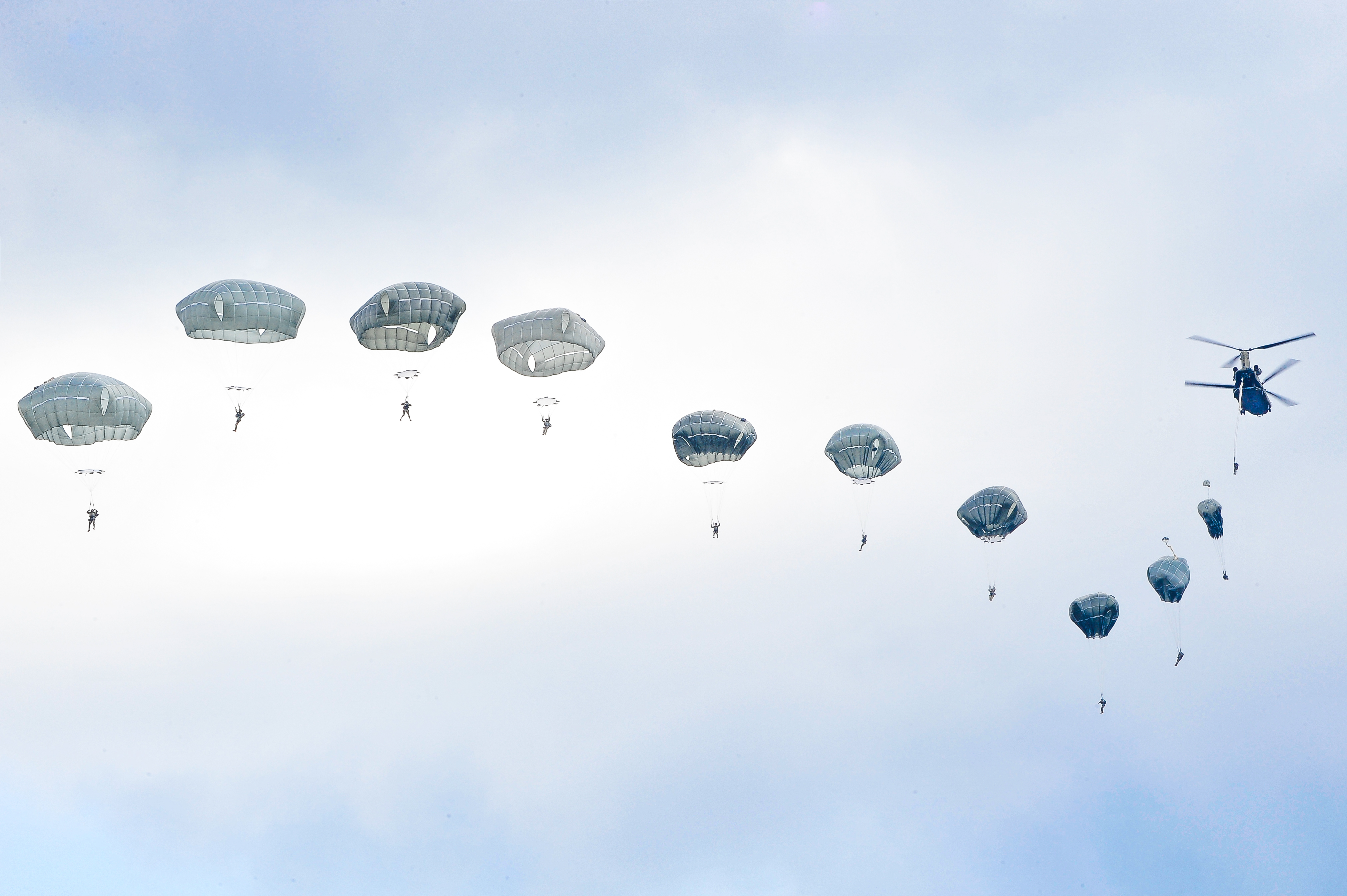 U.S. Army paratroopers assigned to 1st Squadron (Airborne), 91st Cavalry Regiment, 173rd Airborne Brigade execute an airborne proficiency jump from a CH-47 Chinook helicopter onto Bunker Drop Zone in Grafenwoehr Training Area, Germany, August 14, 2019.